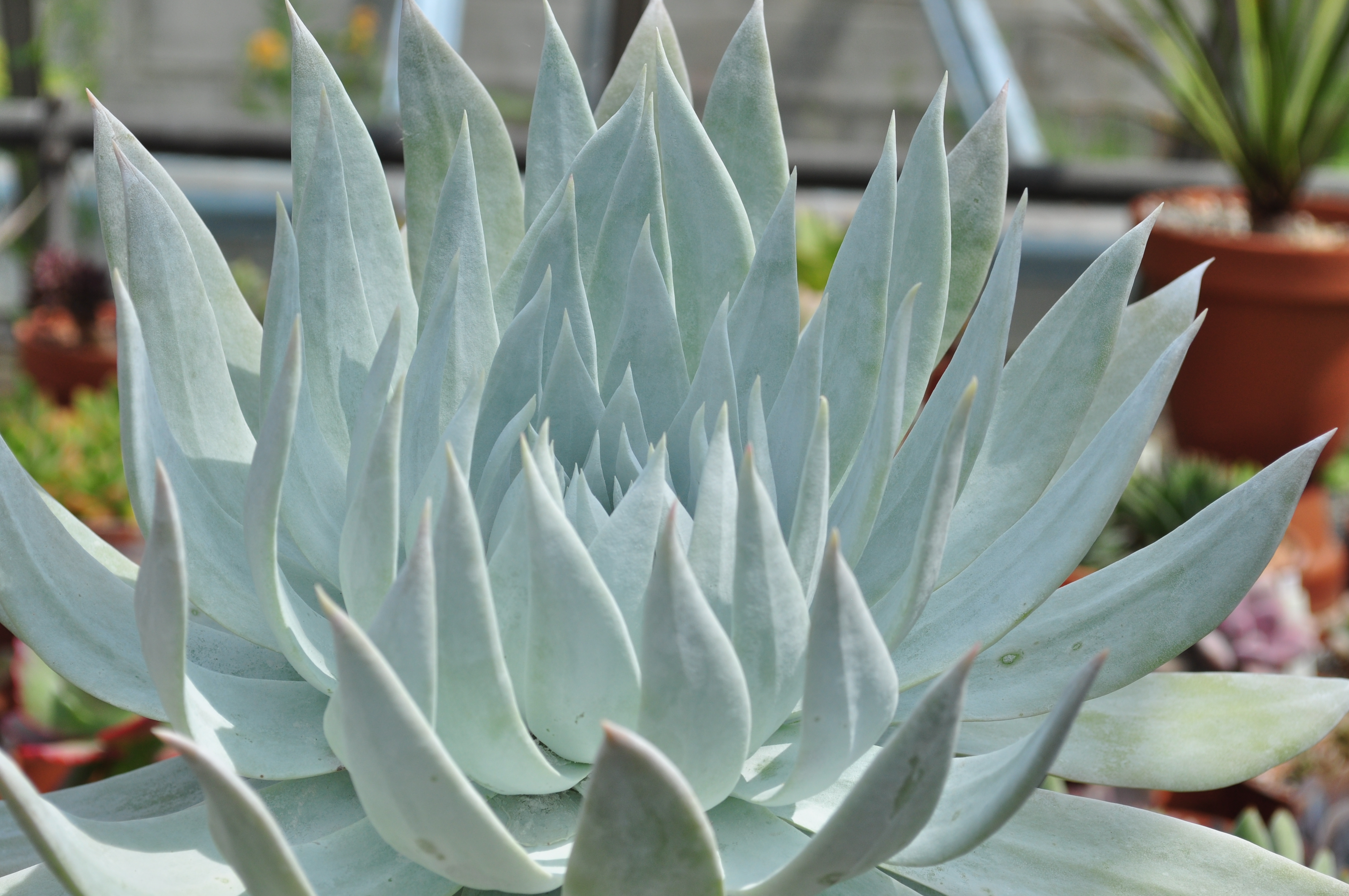 Dudleya Brittonii in the Conservatory at the Wave Hill public garden, Bronx, NY